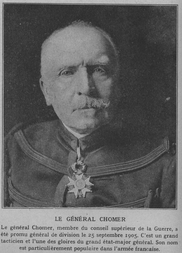 Le général français Nicolas_Charles Chomer.